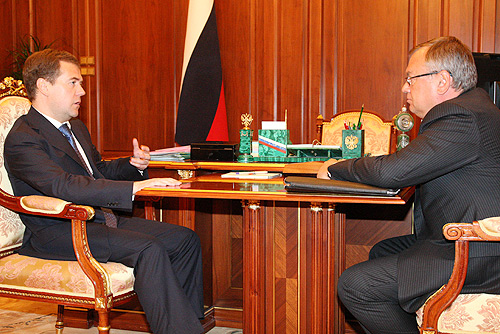 THE KREMLIN, MOSCOW. With Chairman of the Board and Chief Executive Officer of VTB bank Andrei Kostin.